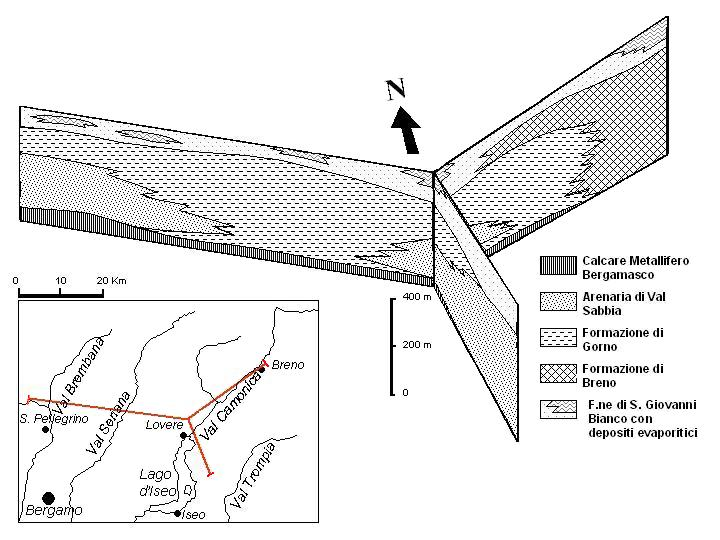 Stratigraphic scheme of Arenaria di Val Sabbia, a formation of Southern Alps. Legend in italian.